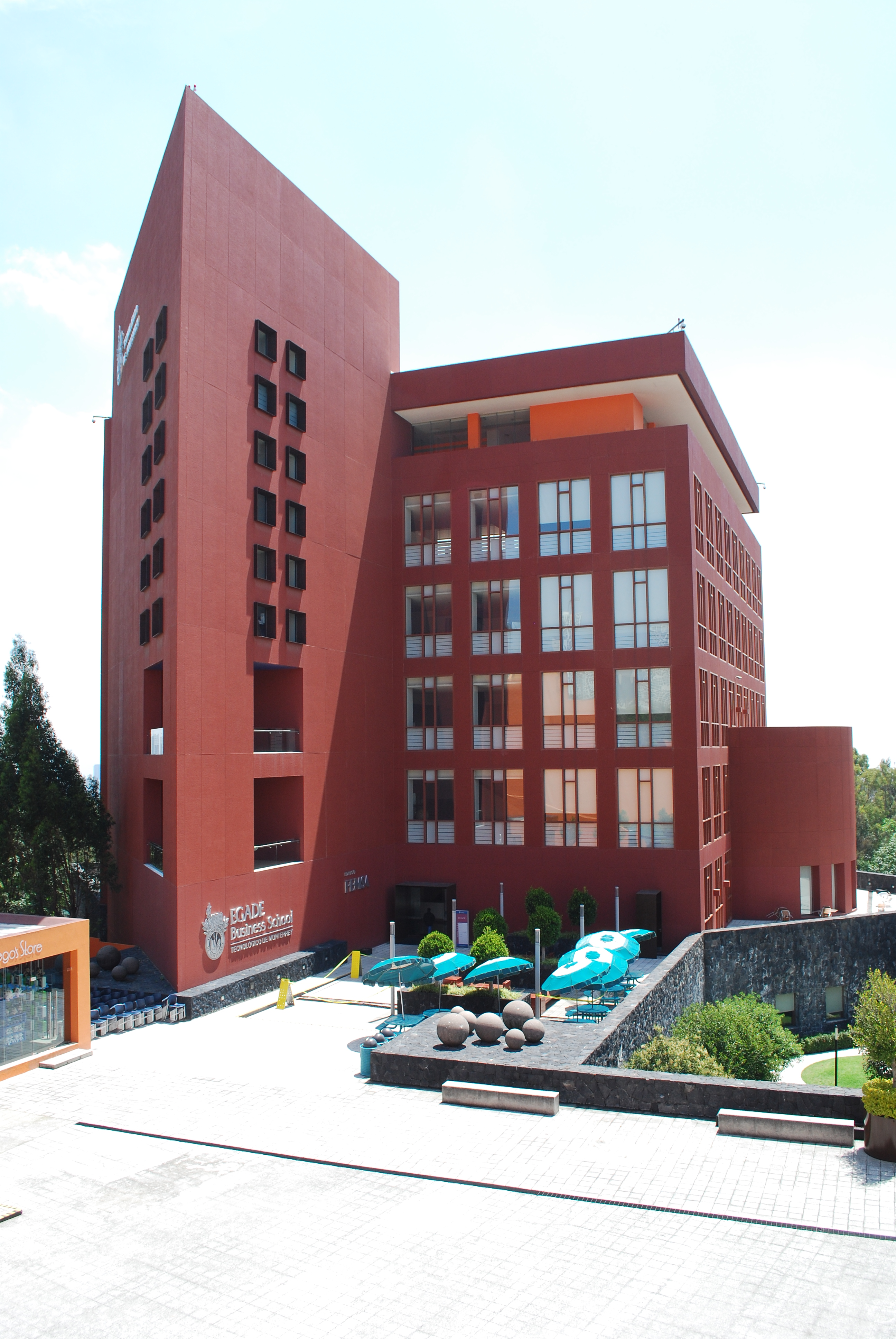 EGADE building Tec de Monterrey, Campus Santa Fe in Mexico City